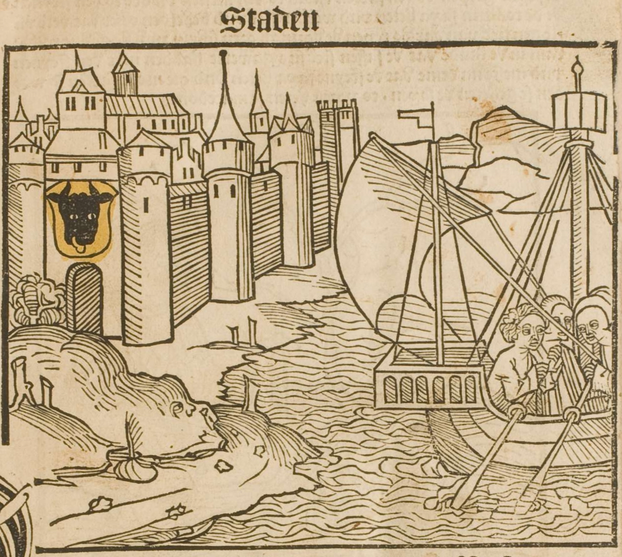 Illustration from the incunabulum: Cronecken der Sassen (The Chronicles of Saxony) printed by Peter Schöffer in Mainz. Shown is a view of the city Stade